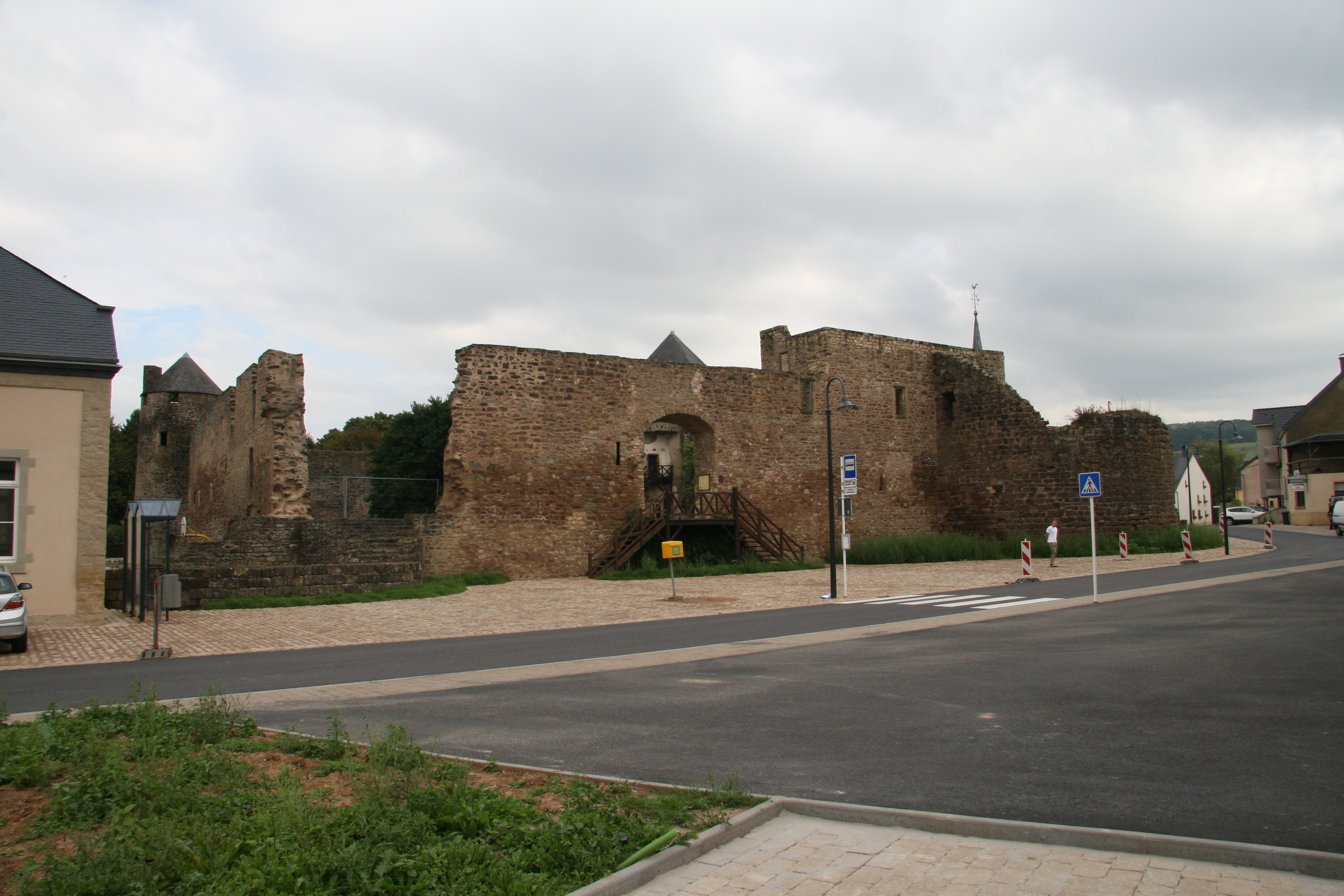 Moat Pettingen, municipality of Mersch, Luxembourg.